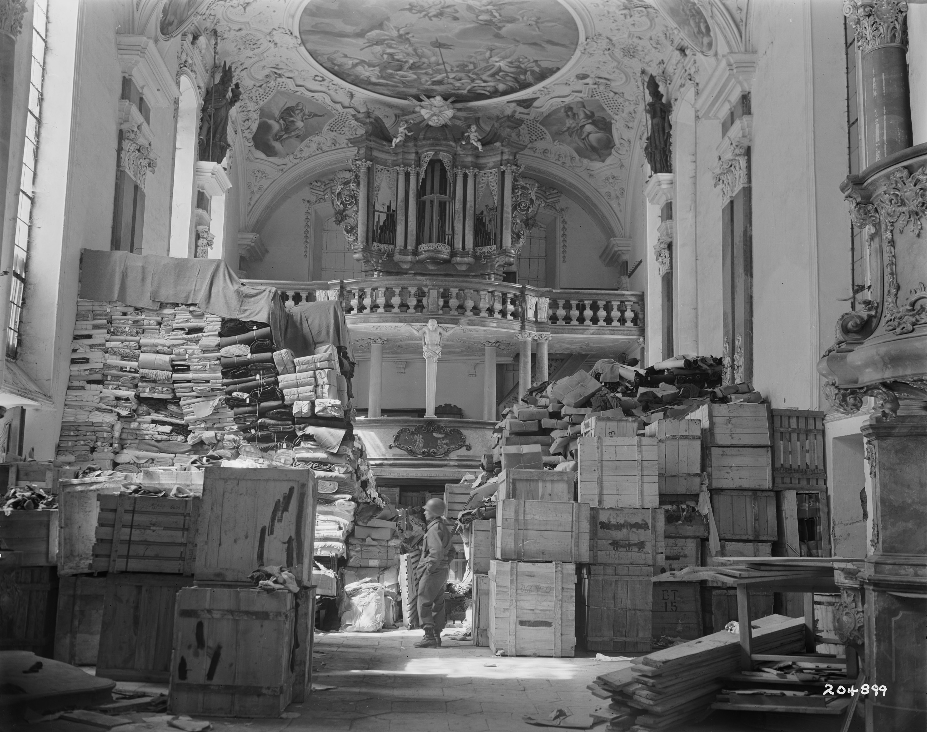 Loot - German loot stored at Schlosskirche Ellingen (Ellingen (Bavaria), Germany) found by troops of the U.S. Third Army